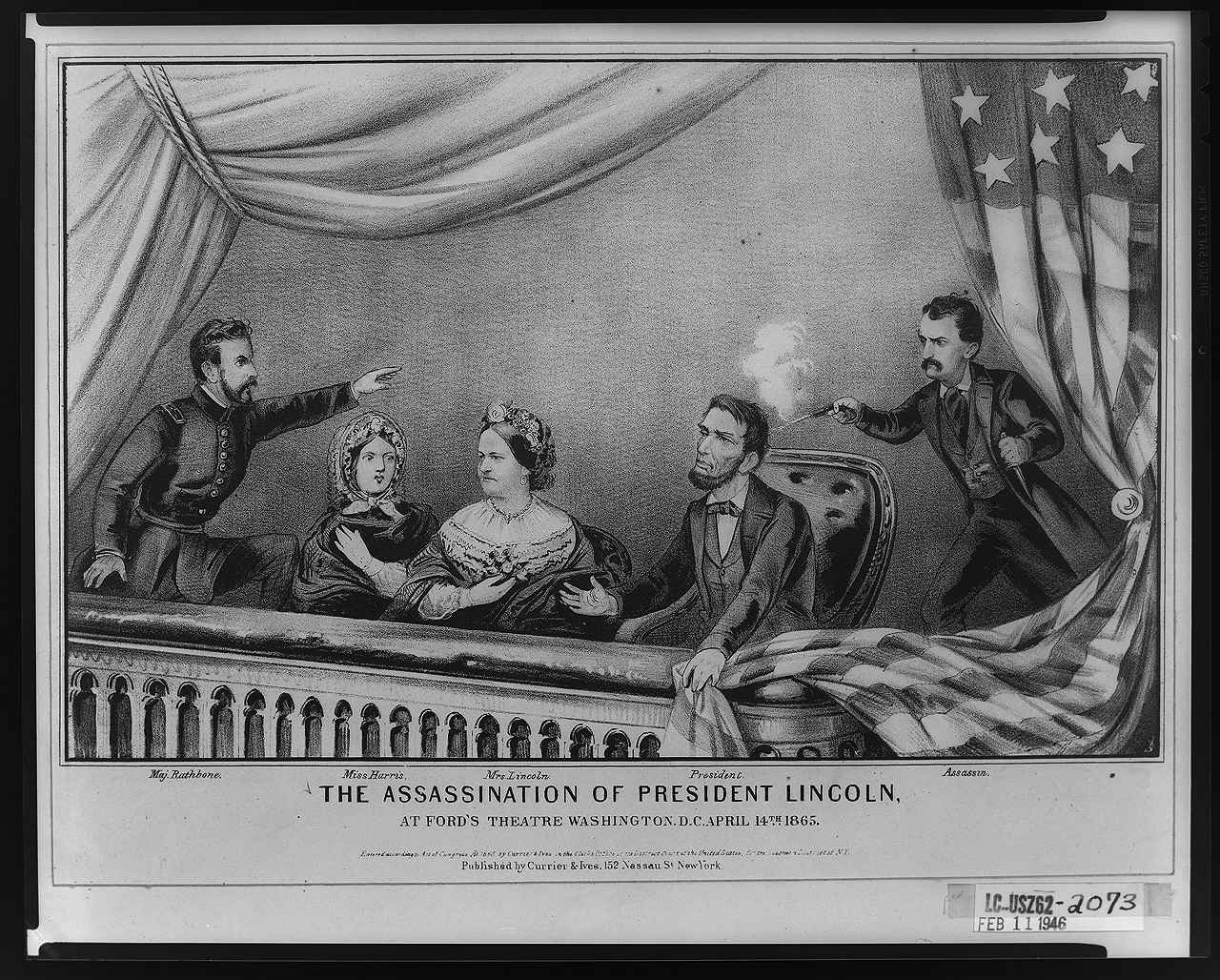 TITLE: The assassination of President Lincoln: at Ford's Theatre, Washington, D.C., April 14th, 1865 CALL NUMBER: PGA - Currier & Ives--Assassination of President Lincoln ... (A size) [P&P] REPRODUCTION NUMBER: LC-USZC2-1947 (color film copy slide) LC-USZ62-2073 (b&w film copy negative) RIGHTS INFORMATION: No known restrictions on publication. MEDIUM: 1 print : lithograph. CREATED/PUBLISHED: New York : Currier & Ives, 1865. CREATOR: Currier & Ives. NOTES: Currier & Ives : a catalogue raisonné / compiled by Gale Research. Detroit, MI : Gale Research, c1983, no. 0314. Reference copy in PRES FILE - Lincoln, Abraham.